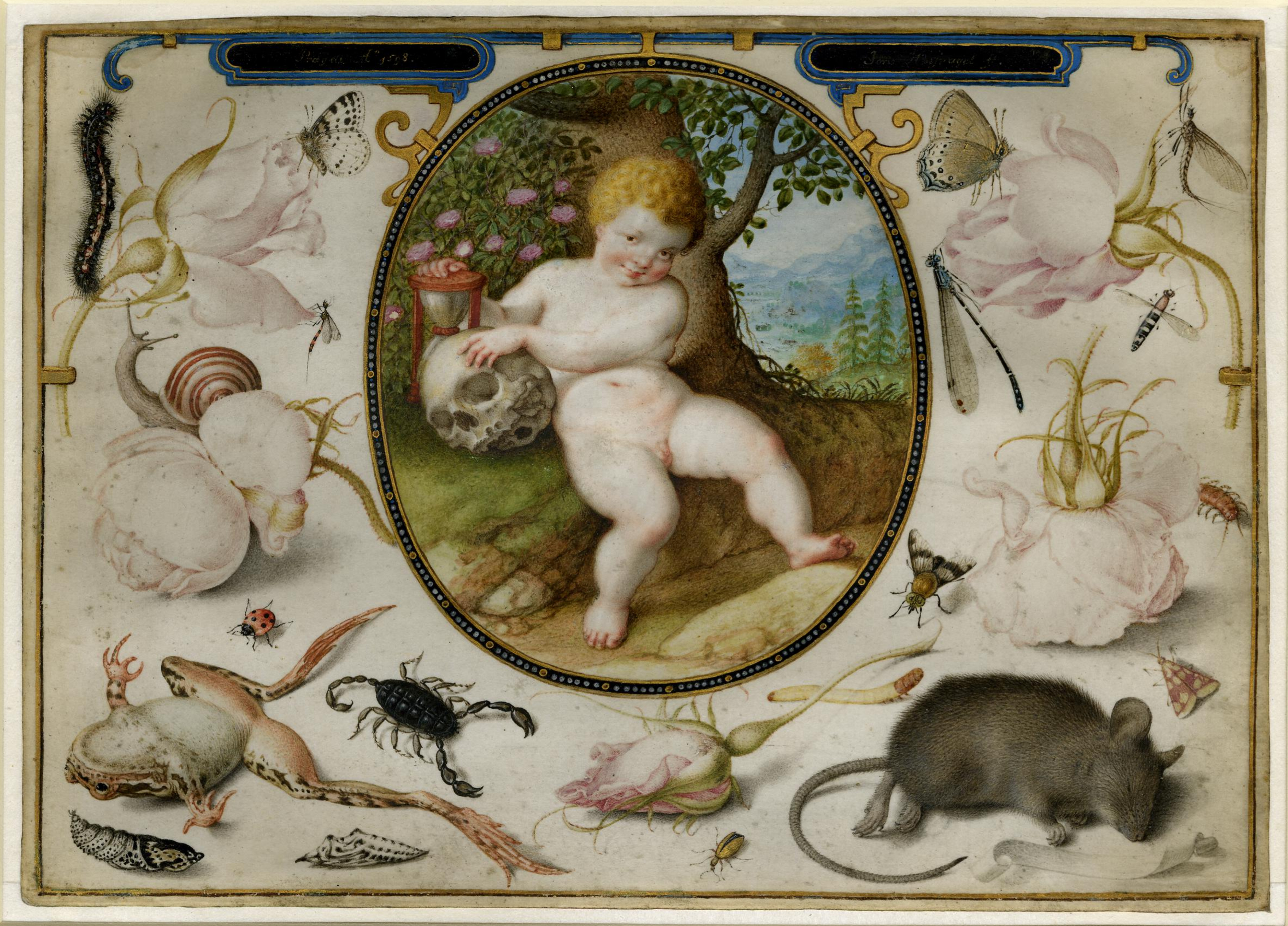 Allegory on Life and Death, attributed to: Jacob Hoefnagel (the figure and landscape within the oval) and Joris Hoefnagel (animals, insects and plants on the border); an oval panel containing a child seated in front of a rose bush holding a skull and an hour-glass, surrounded by dead roses, insects and animals, including a frog, a mouse and a stag-beetle. Bodycolour and watercolour with gold leaf on vellum, Height: 168 millimetres, Width: 236 millimetres, The British Museum